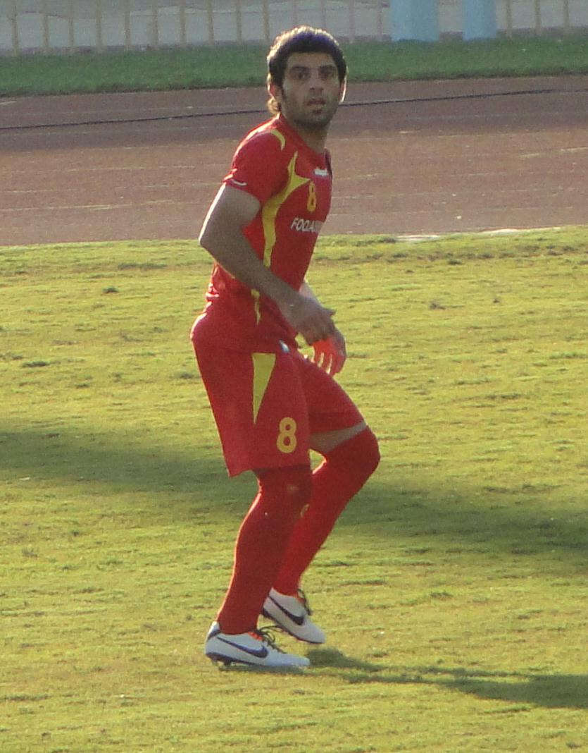 Esmaeil Shaifat in Play against Peykan